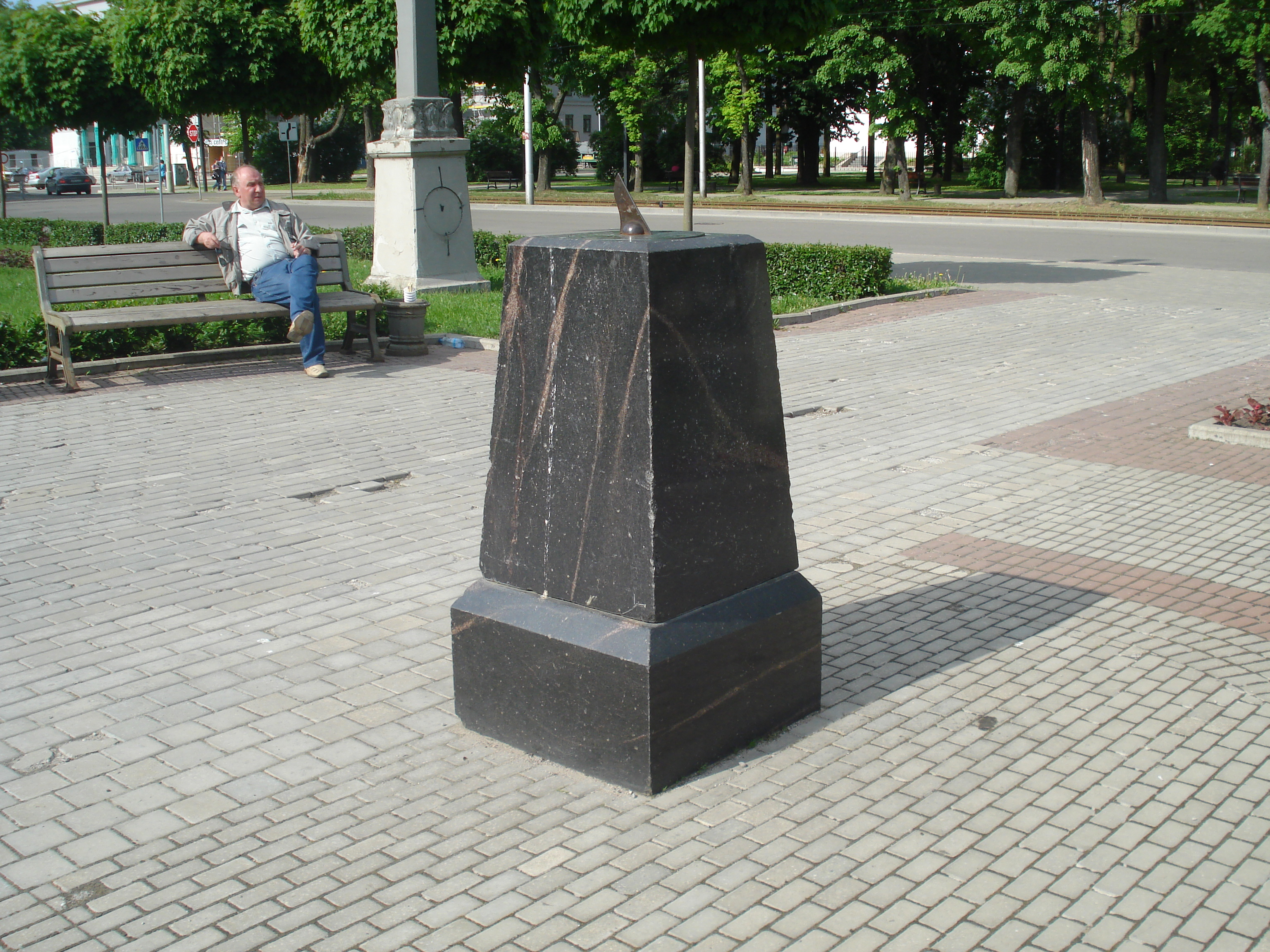 Sundial in Daugavpils (1910) located Vienibas Street 13 close to the building of Daugavpils University